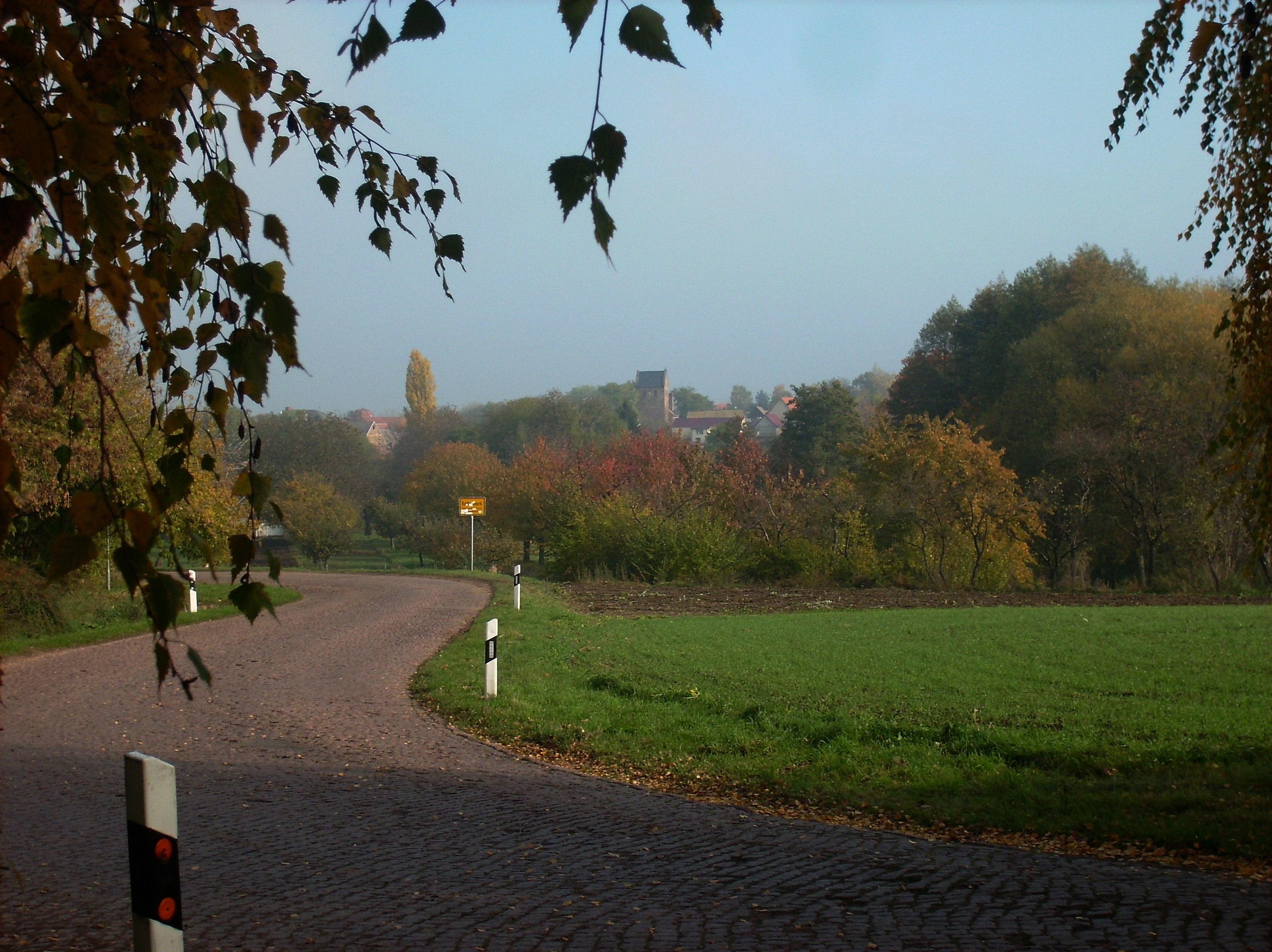 Autumnal landscape near Kaltenmark (Petersberg, district of Saalekreis, Saxony-Anhalt)